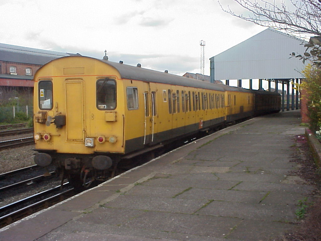 Merseyrail electro-diesel locomotive 73901 sandwiched between a pair of former class 501 driving cars on a de-icing train at Chester.